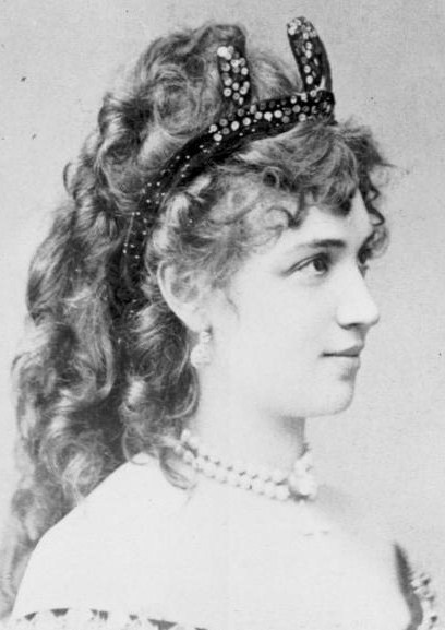 Hermine Bland, nee Steiner (1852-1919), austrian actress in Germany